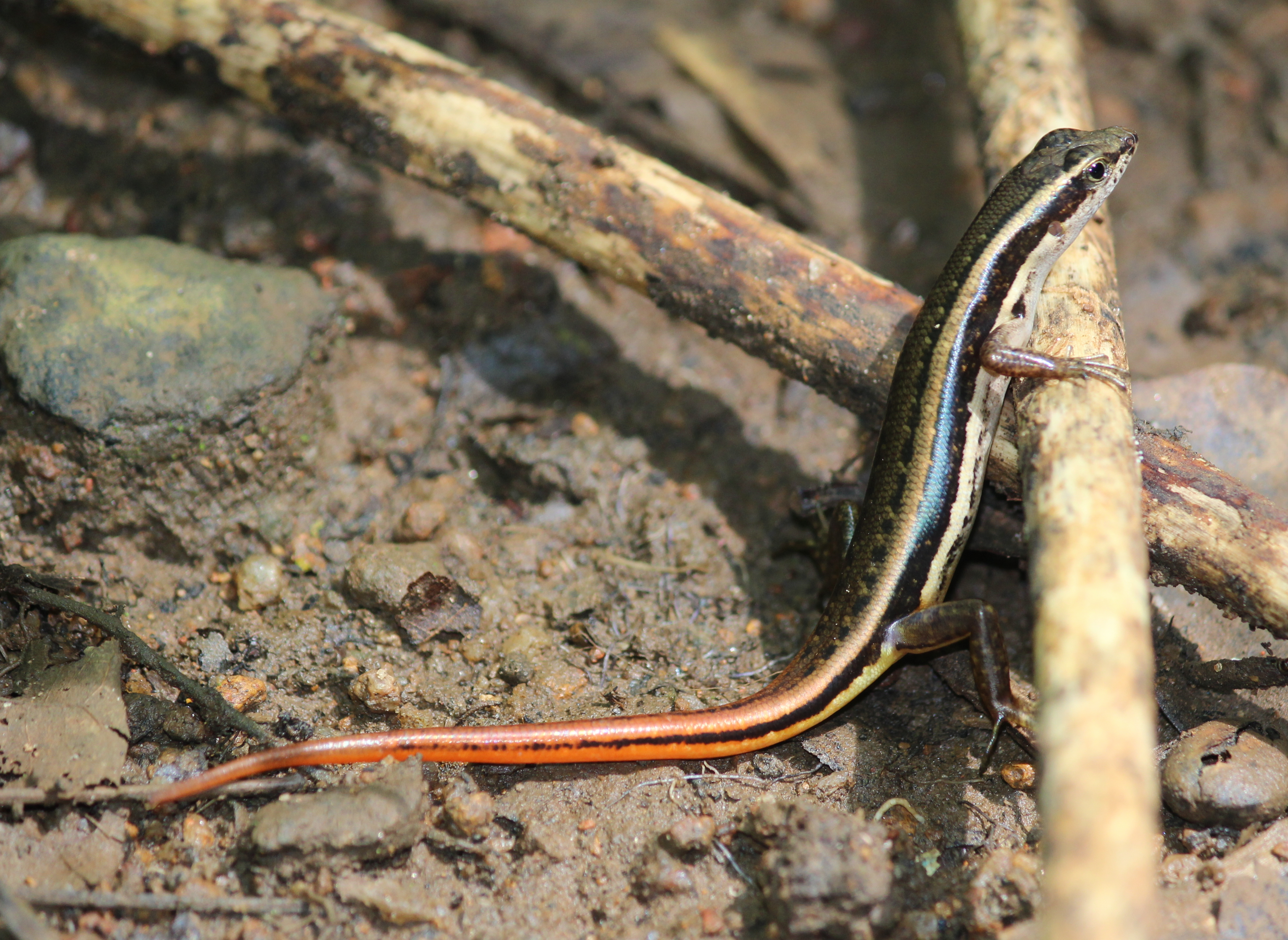 Dussumier's forest skink (Sphenomorphus dussumieri) is endemic to Western Ghats. A visually similar species named Lined Firetail Skink (Morethia ruficauda) found in the Northern Australia.